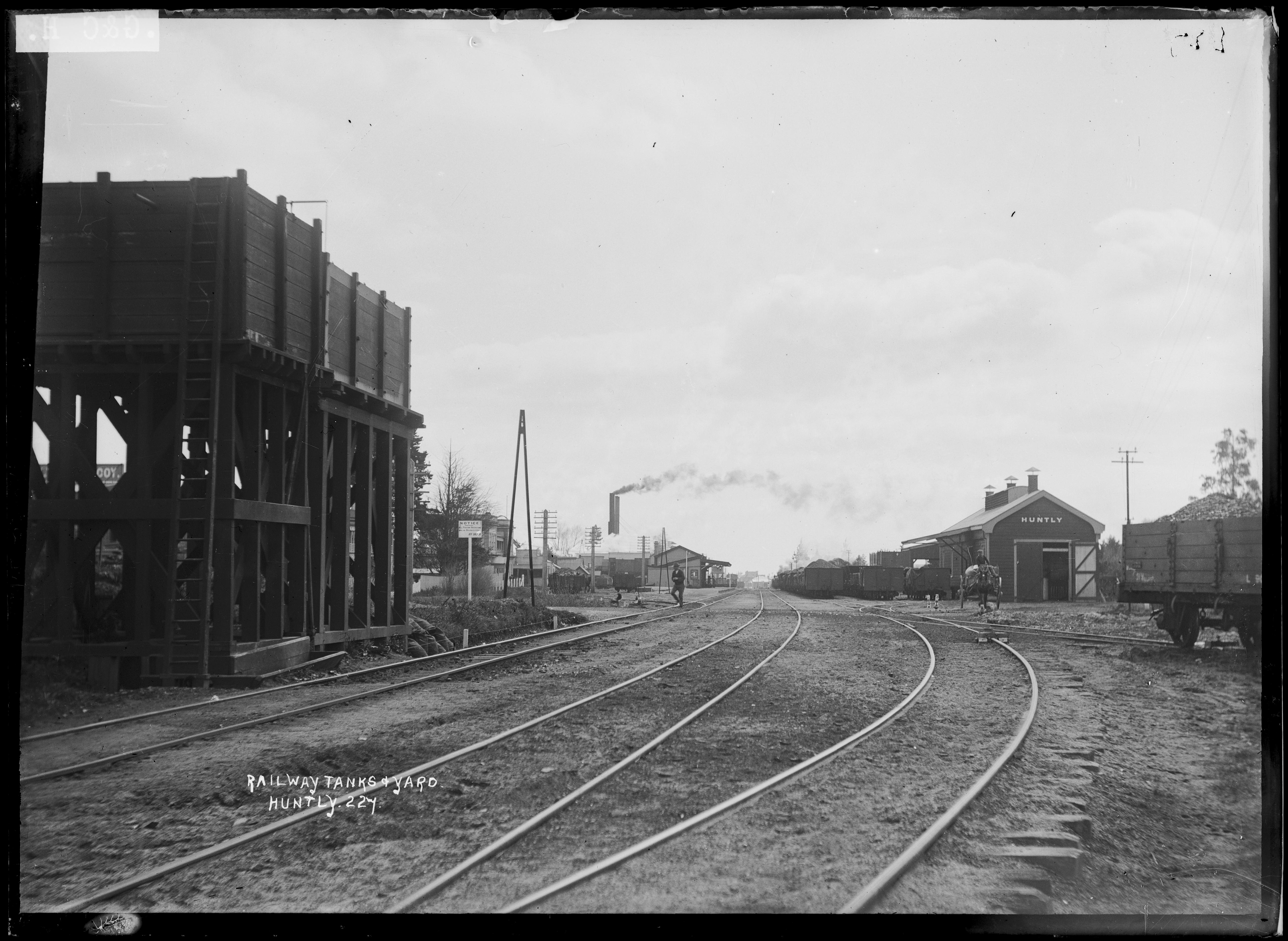 Railway tanks and railway yard at Huntly, photographed by William Archer Price, circa 1910s. The Railway Station is visible centre left, with the workshops centre right. Inscriptions: Inscribed - Photographer's title on negative -bottom left: Railway tanks & yard. Huntly. 227. Quantity: 1 b&w original negative(s). Physical Description: Dry plate glass negative 6.5 x 4.75 inches Huntly Railway Station and railway yards. Price, William Archer, 1866-1948 :Collection of post card negatives. Ref: 1/2-001748-G. Alexander Turnbull Library, Wellington, New Zealand.